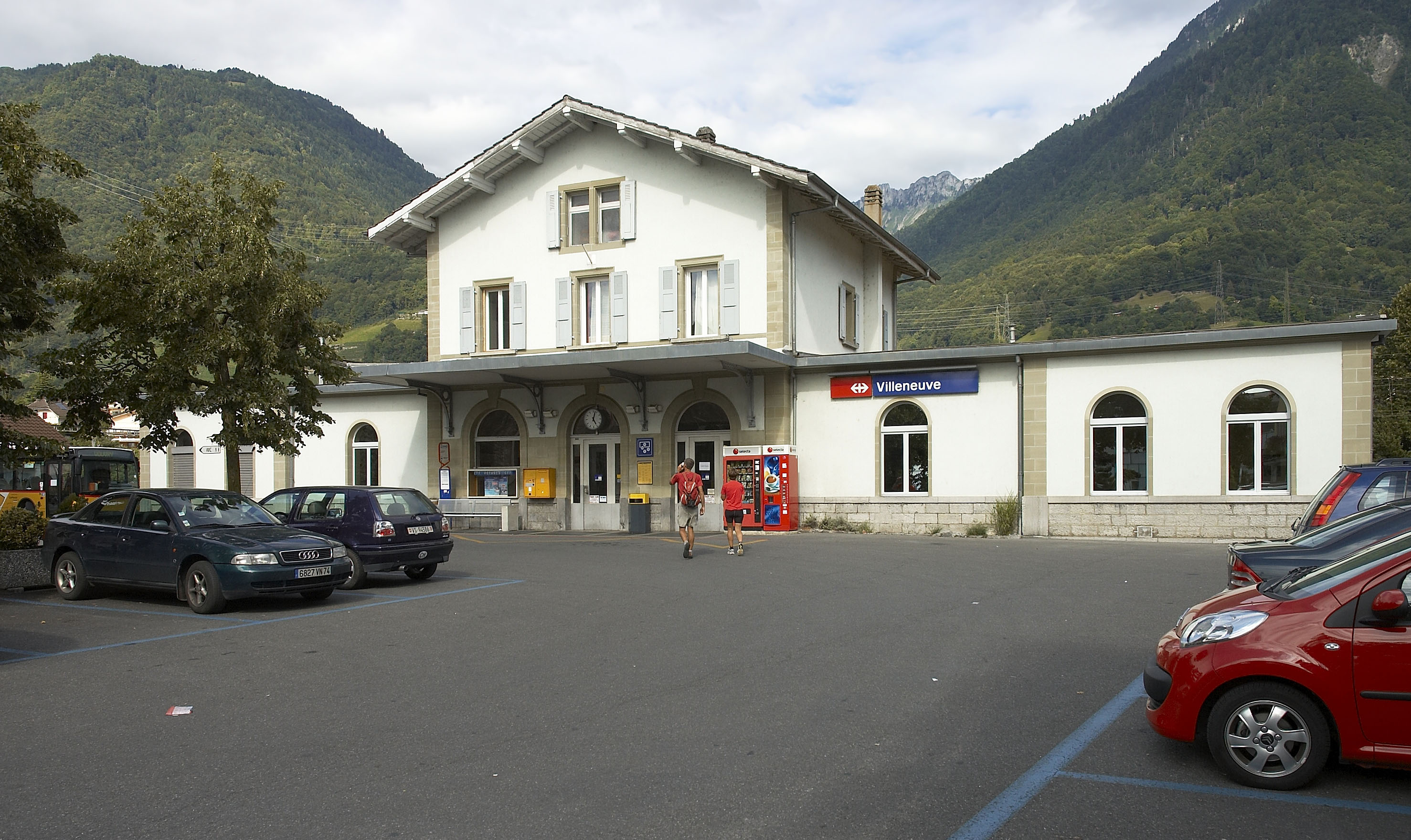 Train and bus station in Villeneuve (Vaud) in Switzerland